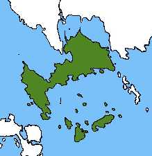 Map of the island of Mogenpört (Munapirtti) in Pyhtää, Finland